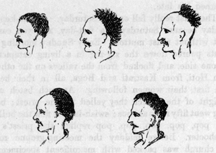 Head-shaves in Kastrati and Skreli, drawing made by Edith Durham before 1909